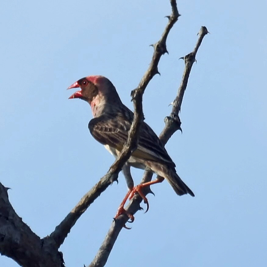 A male Red-billed Quelea with breeding plumage in Limpopo, South Africa.